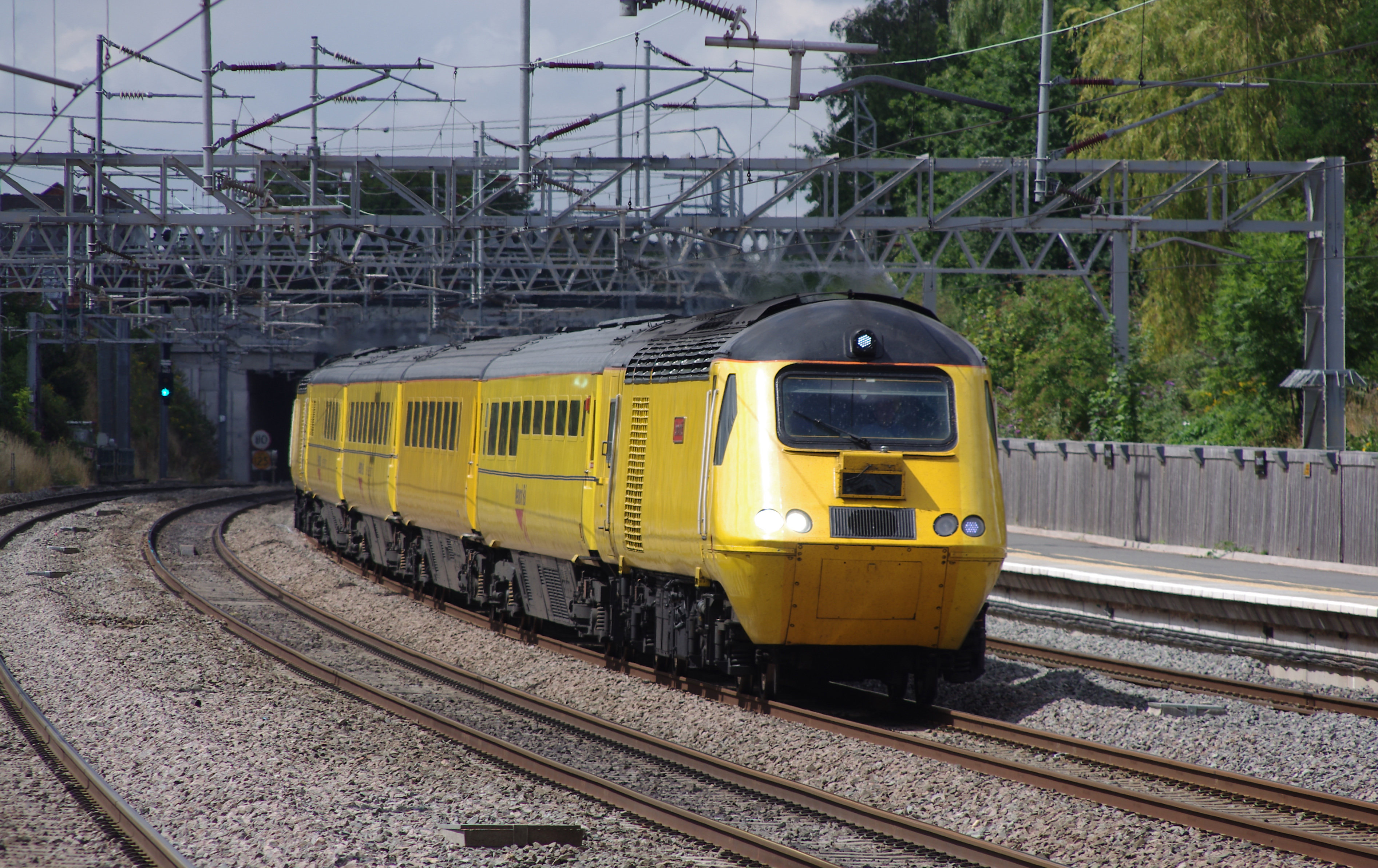 Network Rail's New Measurement Train, headed by 43062, powers south-east through Tamworth on the West Coast Main Line.